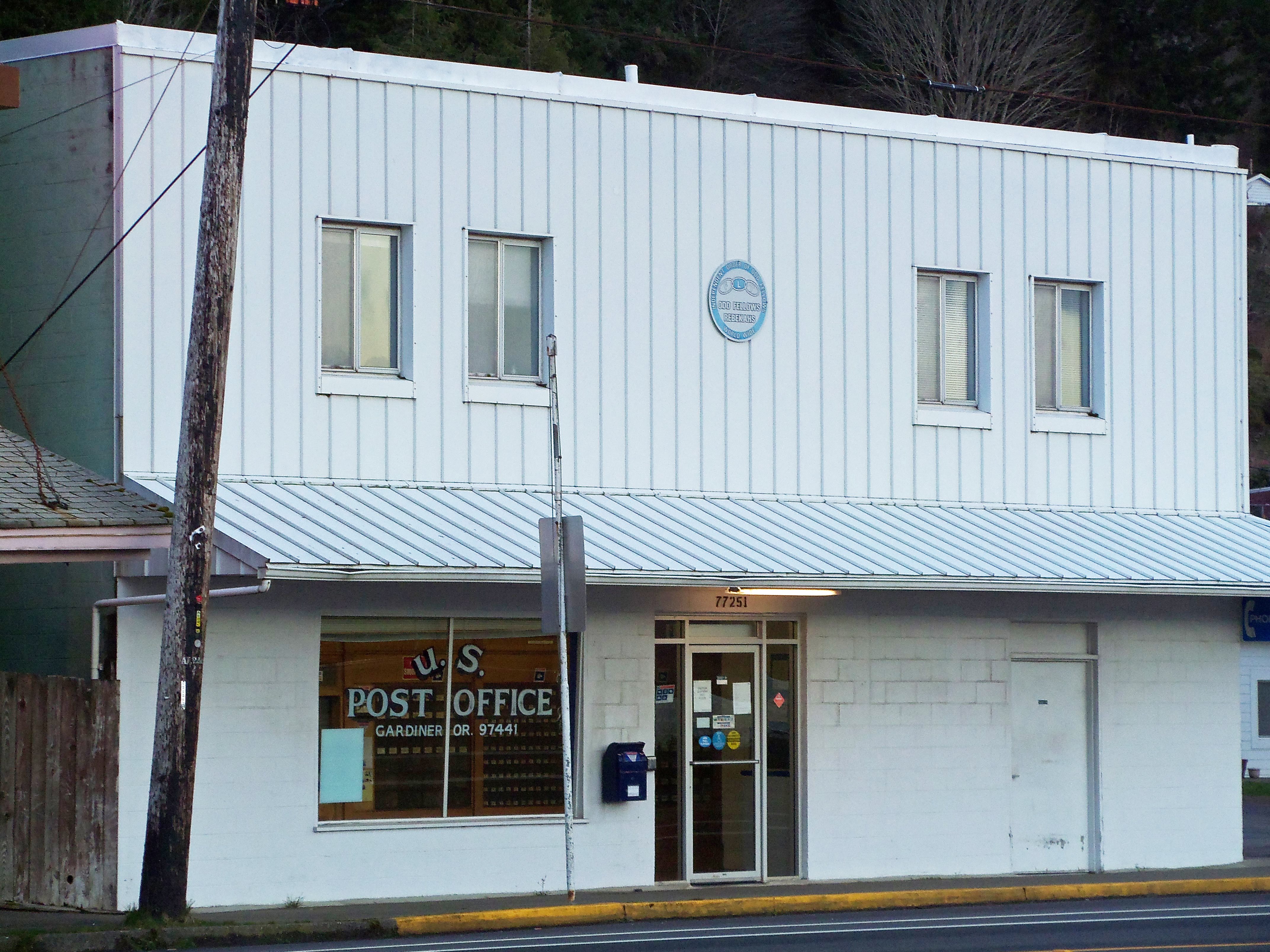 Post Office located on Highway 101 in Gardiner, Oregon 97441